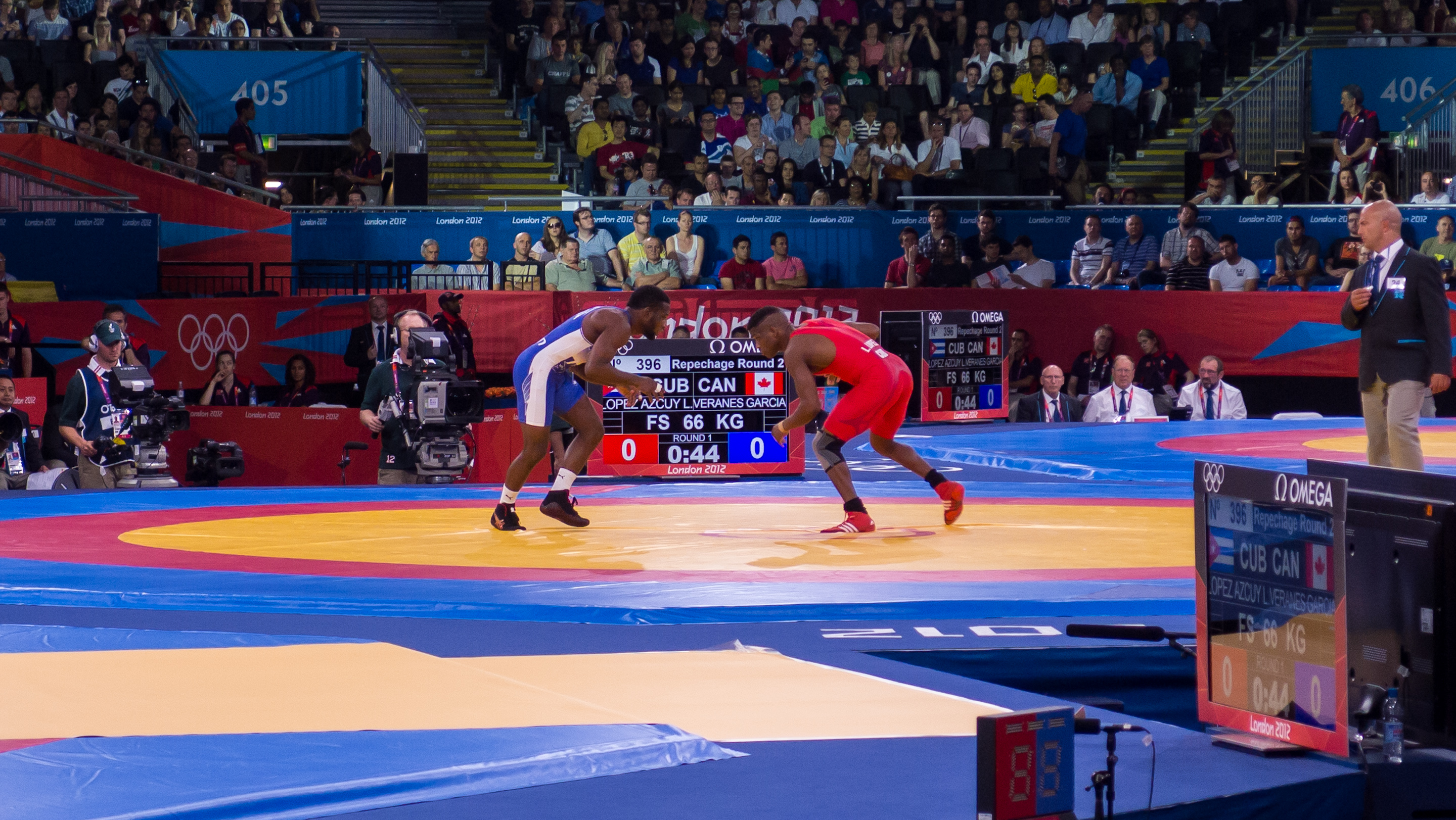 Haislan Garcia (blue) wrestling for Canada against Cuba in the 2012 Summer Olympics in London.